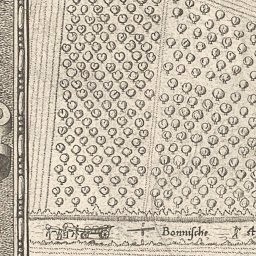 Excerpt from "Kölner Stadtansicht von 1570" by Arnold Mercator (1537-1587)